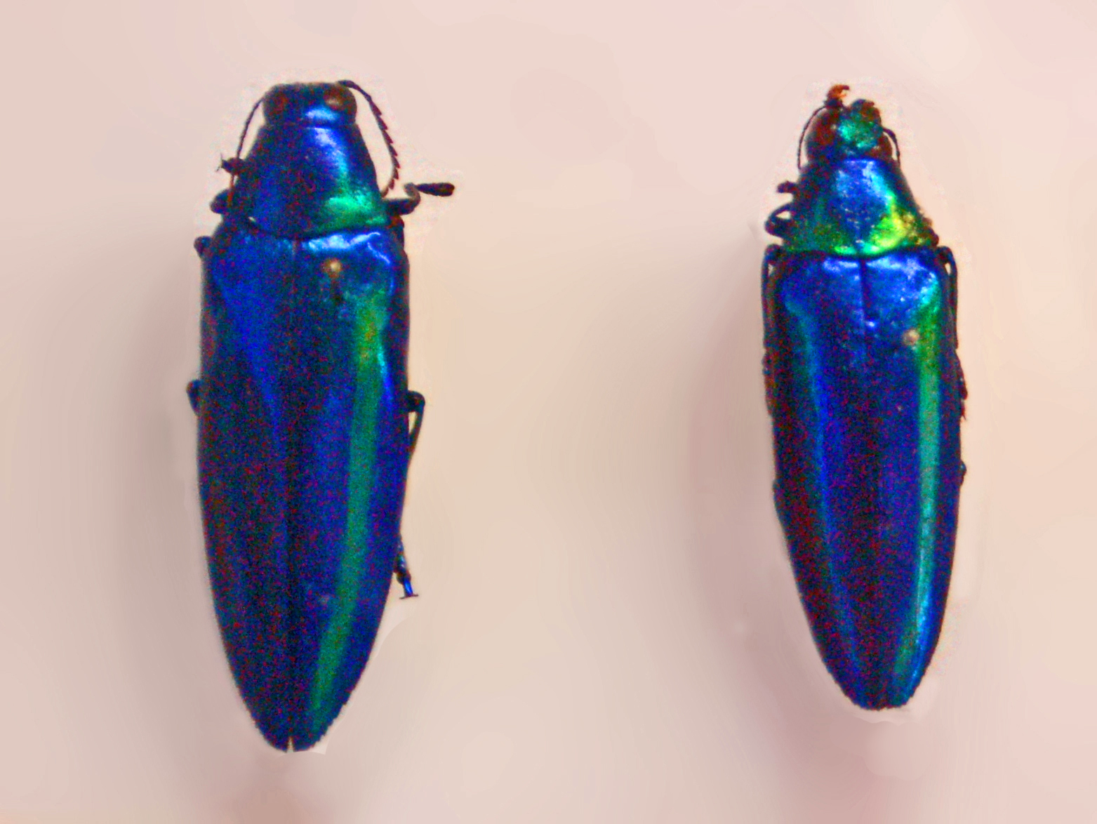 Chrysochroa rajah from southern China, mounted specimen at at National Museum (Prague)